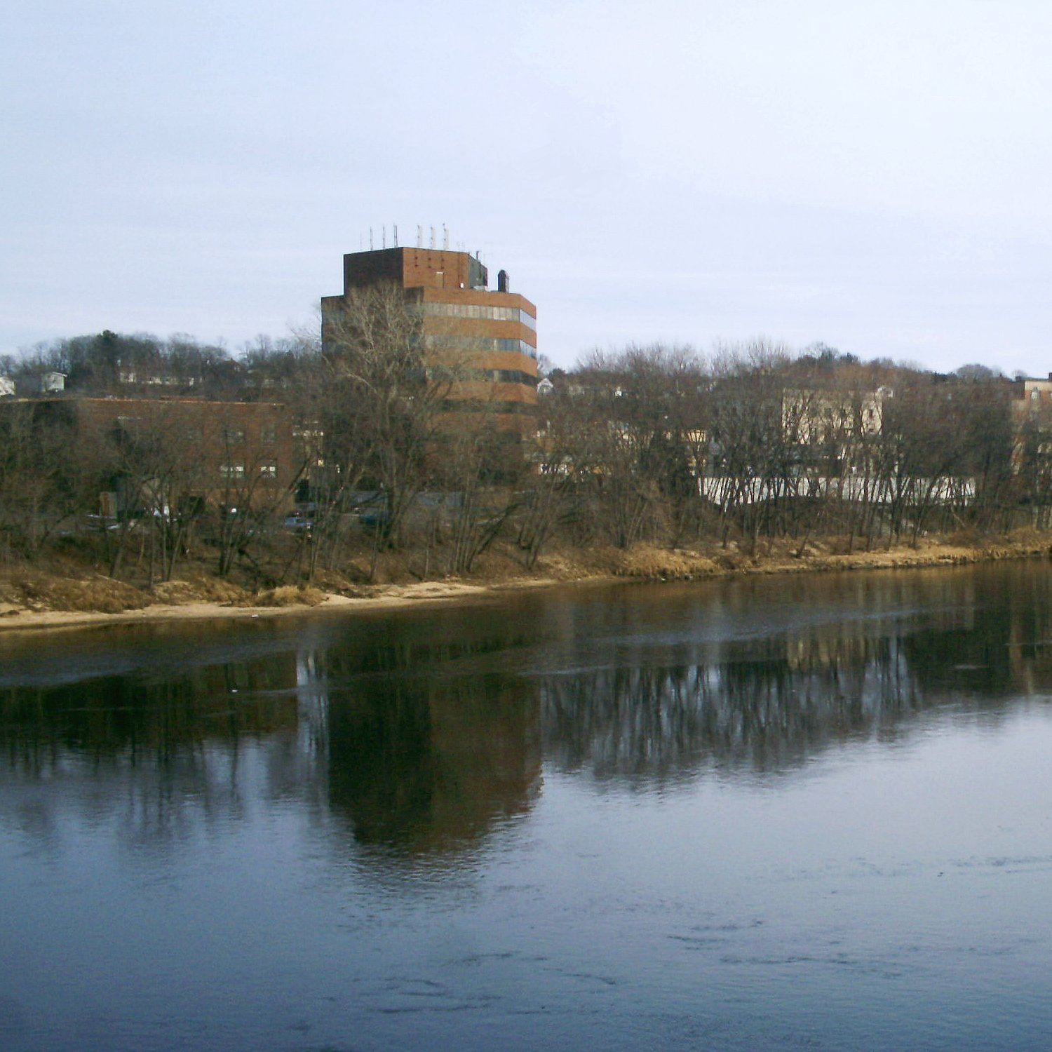 Eau Claire, Wisconsin, United States of America - Chippewa River looking south east